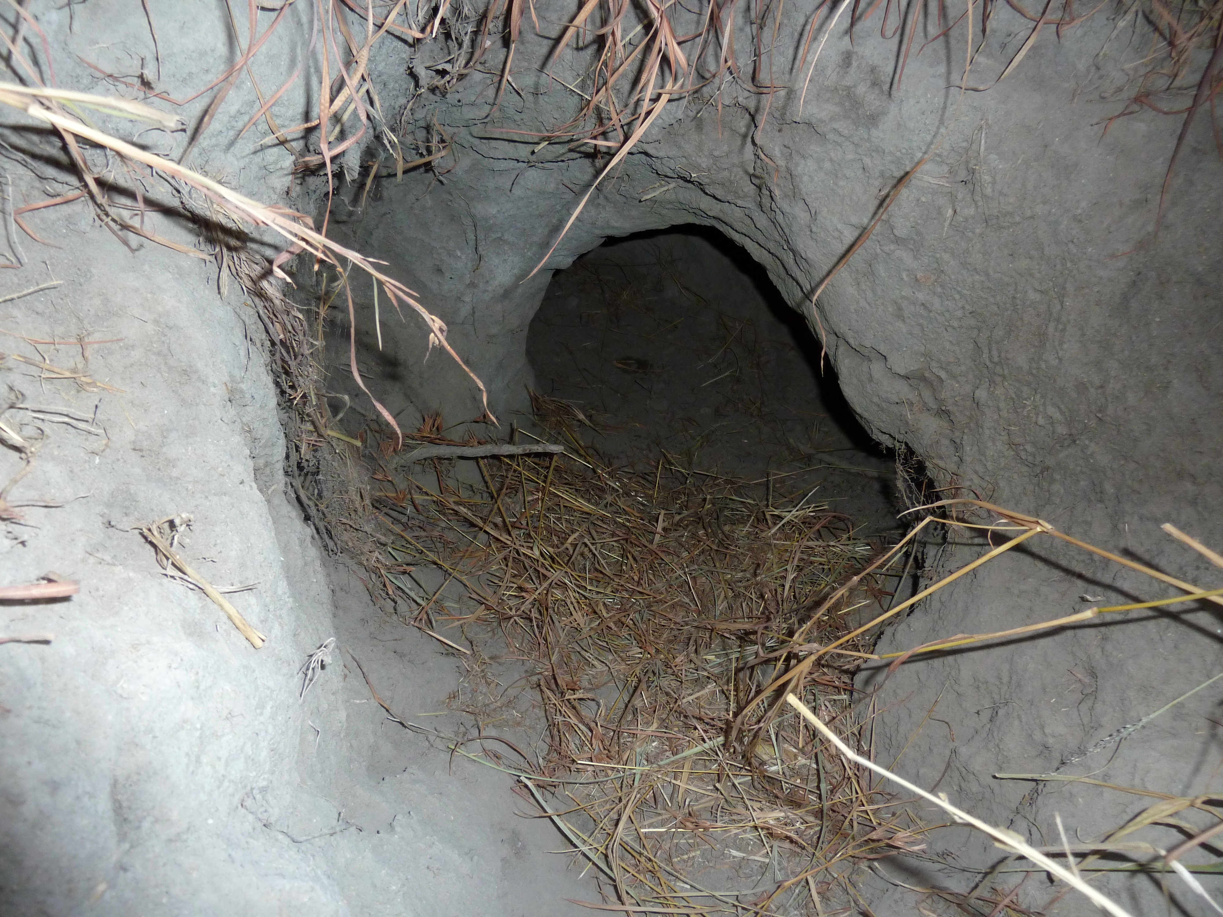 Aardvark burrow in the grassland that now covers Dingane's royal kraal, uMgungundlovu, KwaZulu-Natal. Some termitaria are situated nearby.